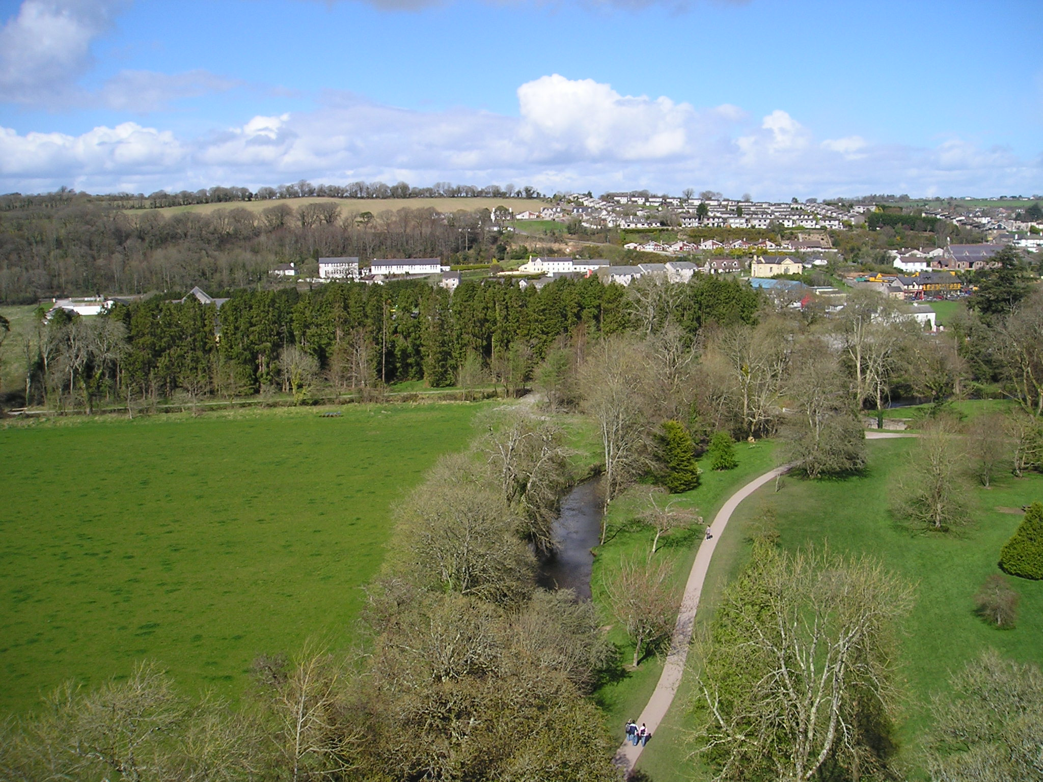 The village of Blarney from the top of the Castle